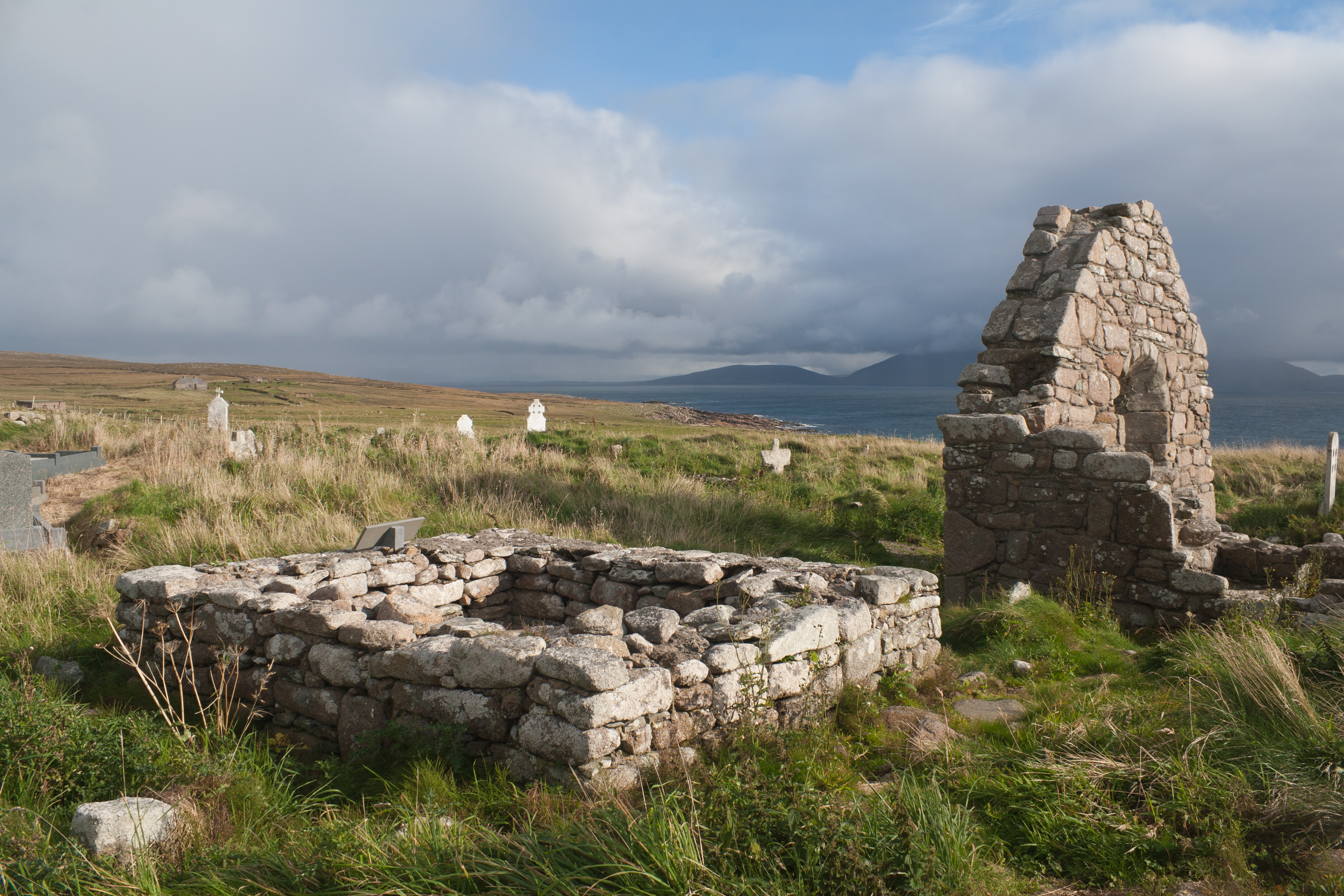 St. Deirbhile's bed (leaba Deirbhile) with the east gable of Teampall Deirbhile in the background.